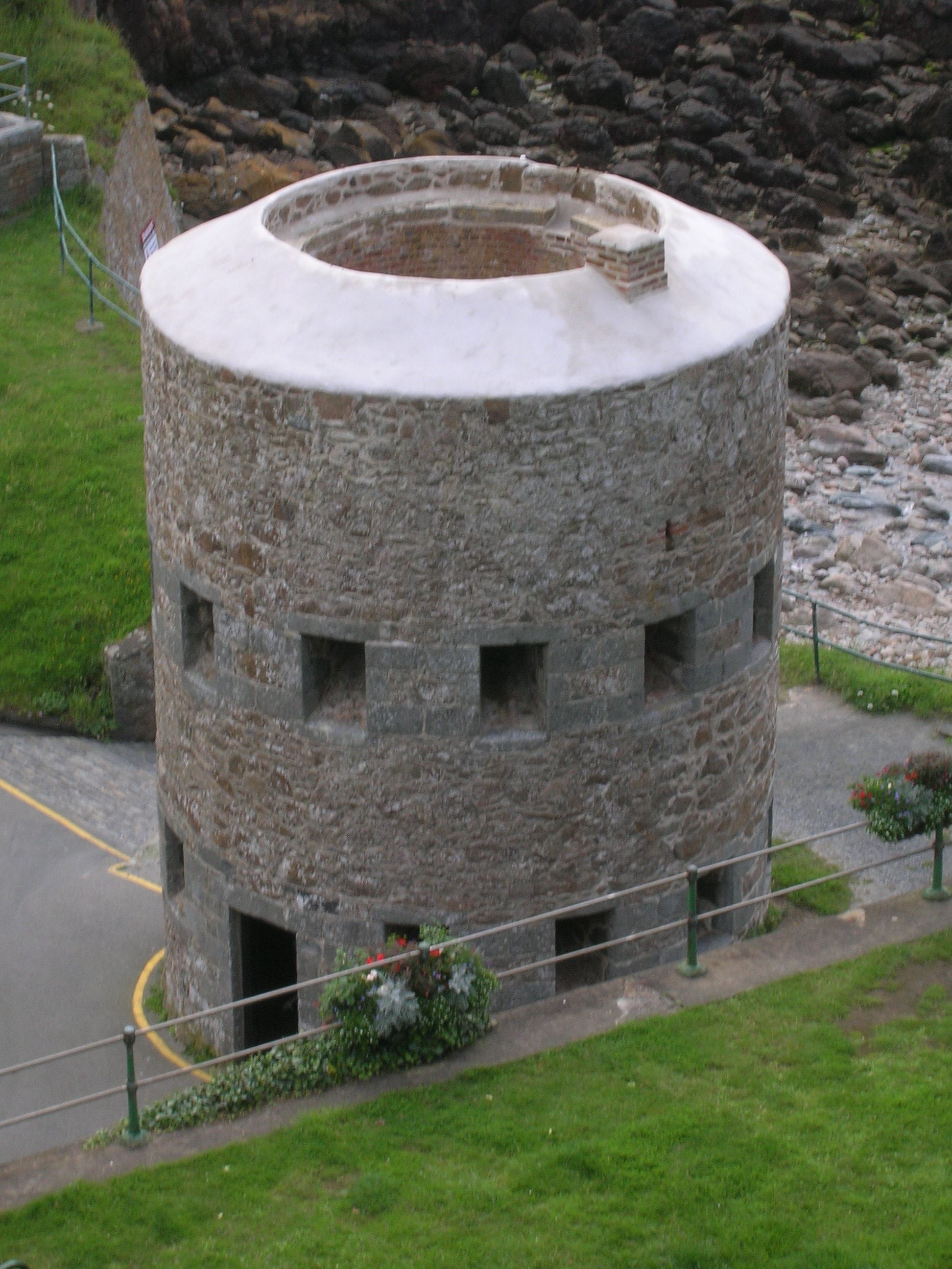 Loophole Tower 13 at Petit Bot, Guernsey, July 2012